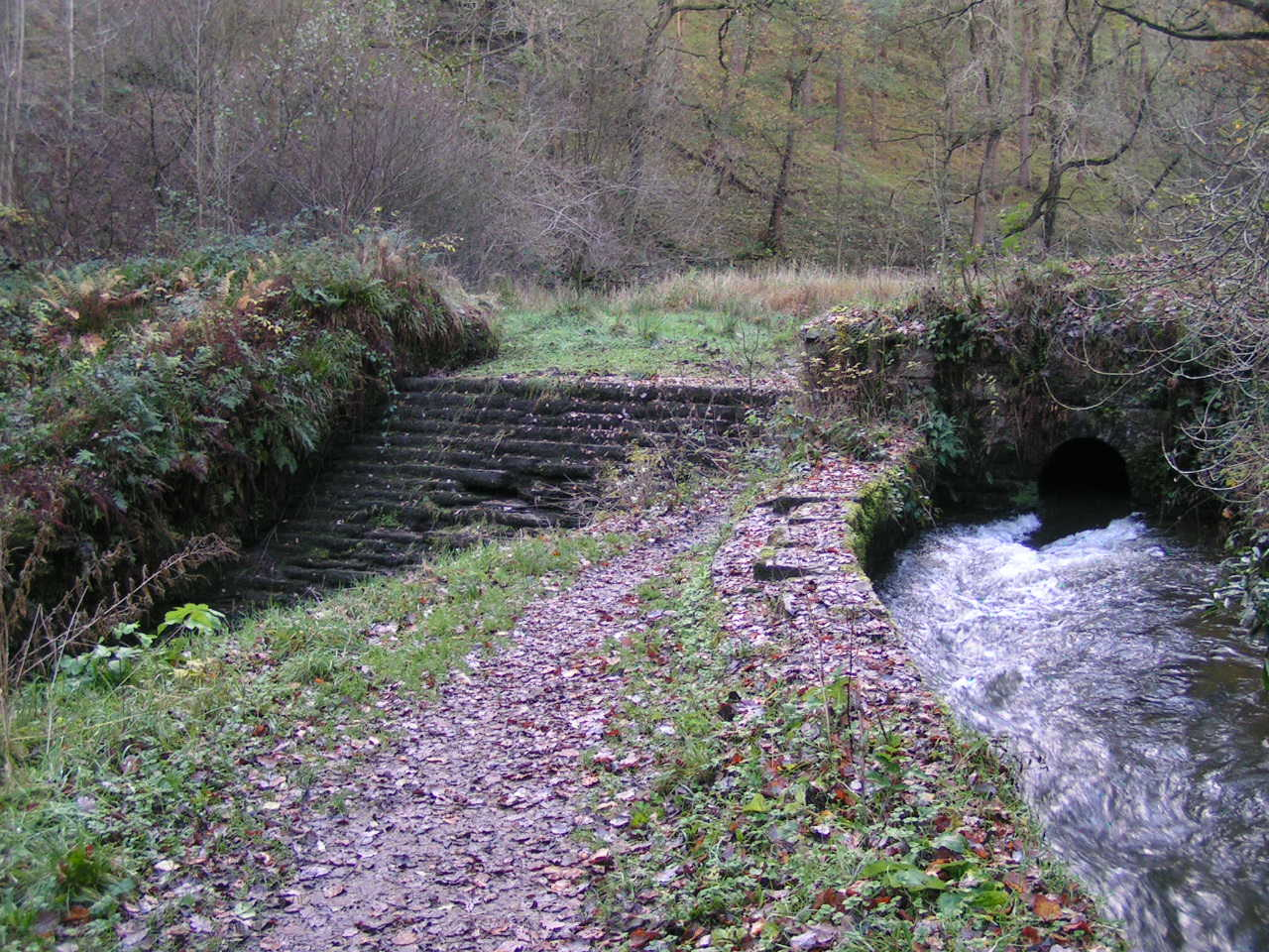 Todd Brook Derbyshire. Near Whaley Bridge. Weir and conduit, Todd Brook. At this point above Toddbrook Reservoir, water from Todd Brook flows either through a sluice into a conduit (right) or over a weir (left) and into the Reservoir. OSGB36: geotagged! SJ 998 805 [100m precision] WGS84: 53:19.2855N 2:0.2678W